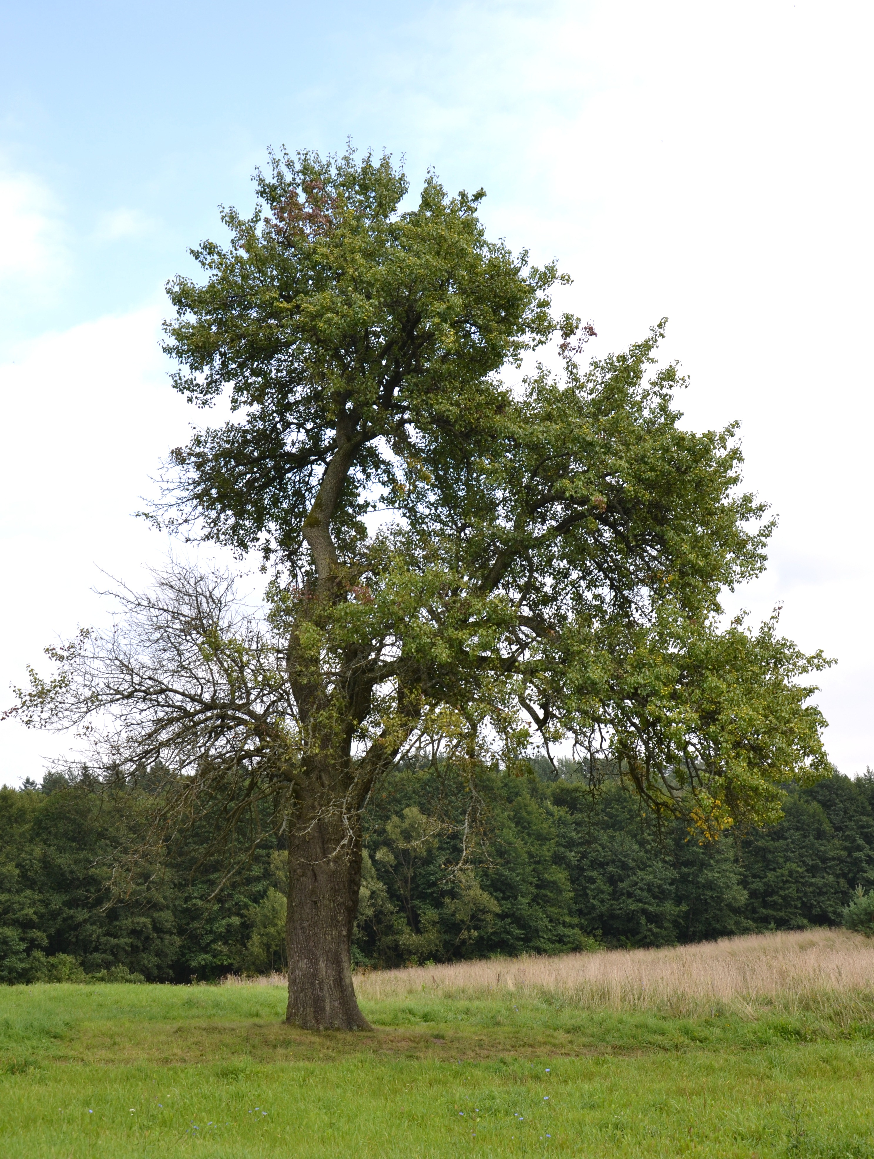 Old Pear, Alytus district, Lithuania